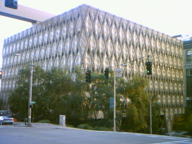 King County Administration Building, Seattle, Washington. Note hexagonal theme. Taken Oct 2006 Seattle, WA